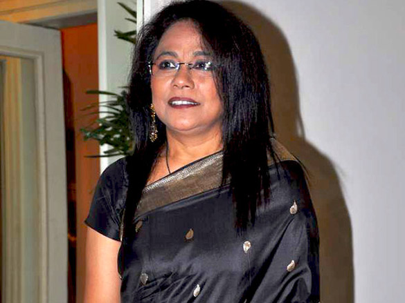 Seema Biswas at Achiever's Award 2011